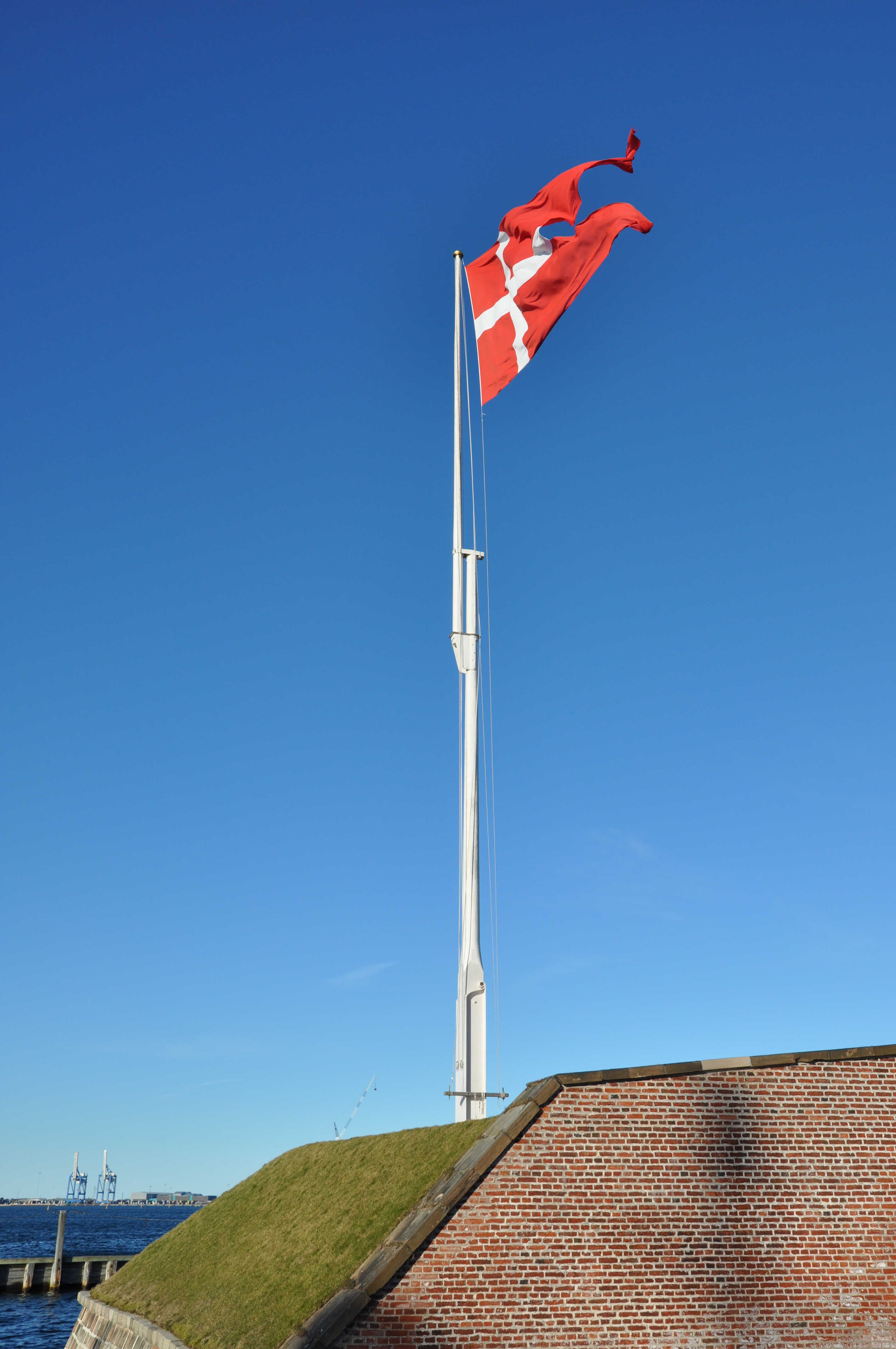 Rigets Flag (Flag of the Kingdom) on Holmen naval base, Copenhagen